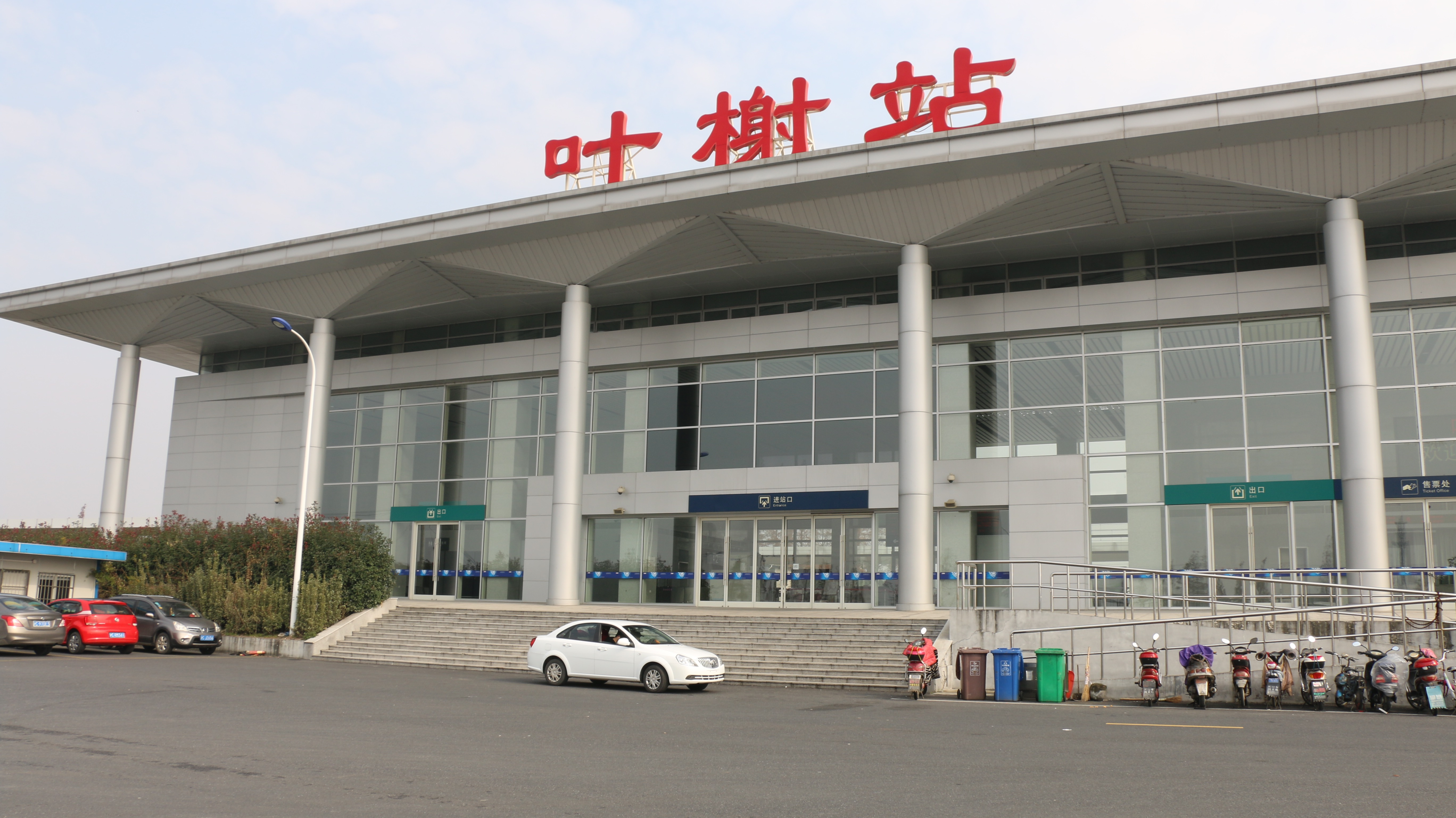 Facade of Yexie Railway Station